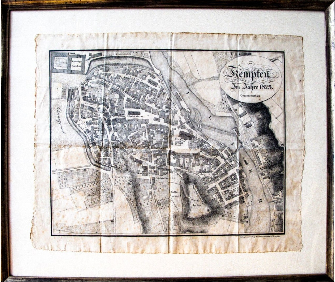 old city map of Kempten, Allgäu, Bavaria